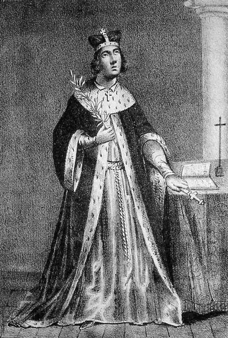 Saint Casimir